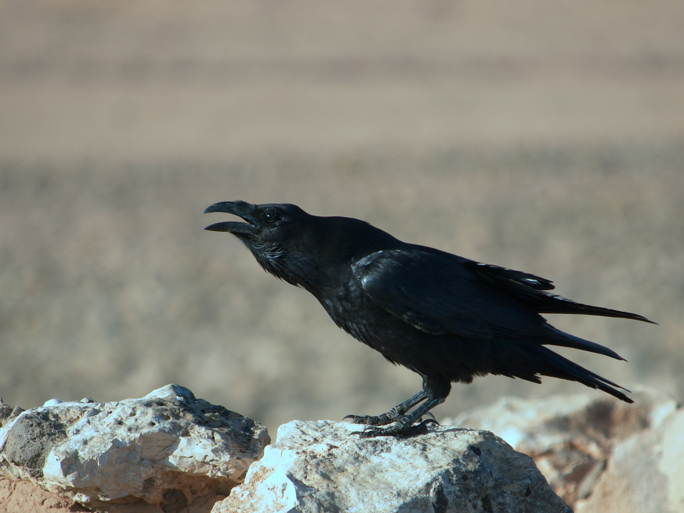 A Common Raven in Tefia, Fuerteventura, Canary Islands, Spain.